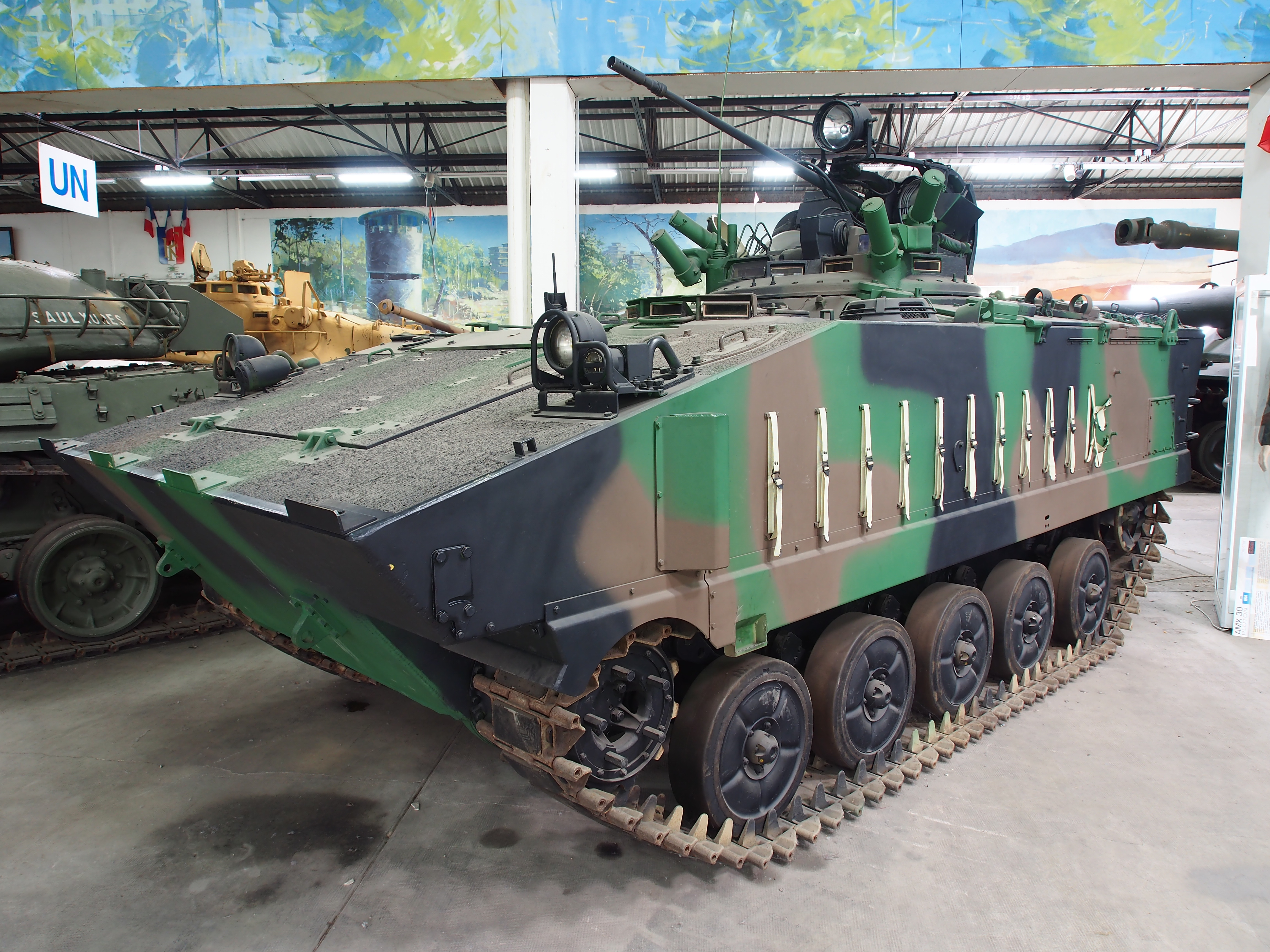 Photographed in the Musée des Blindés, France.